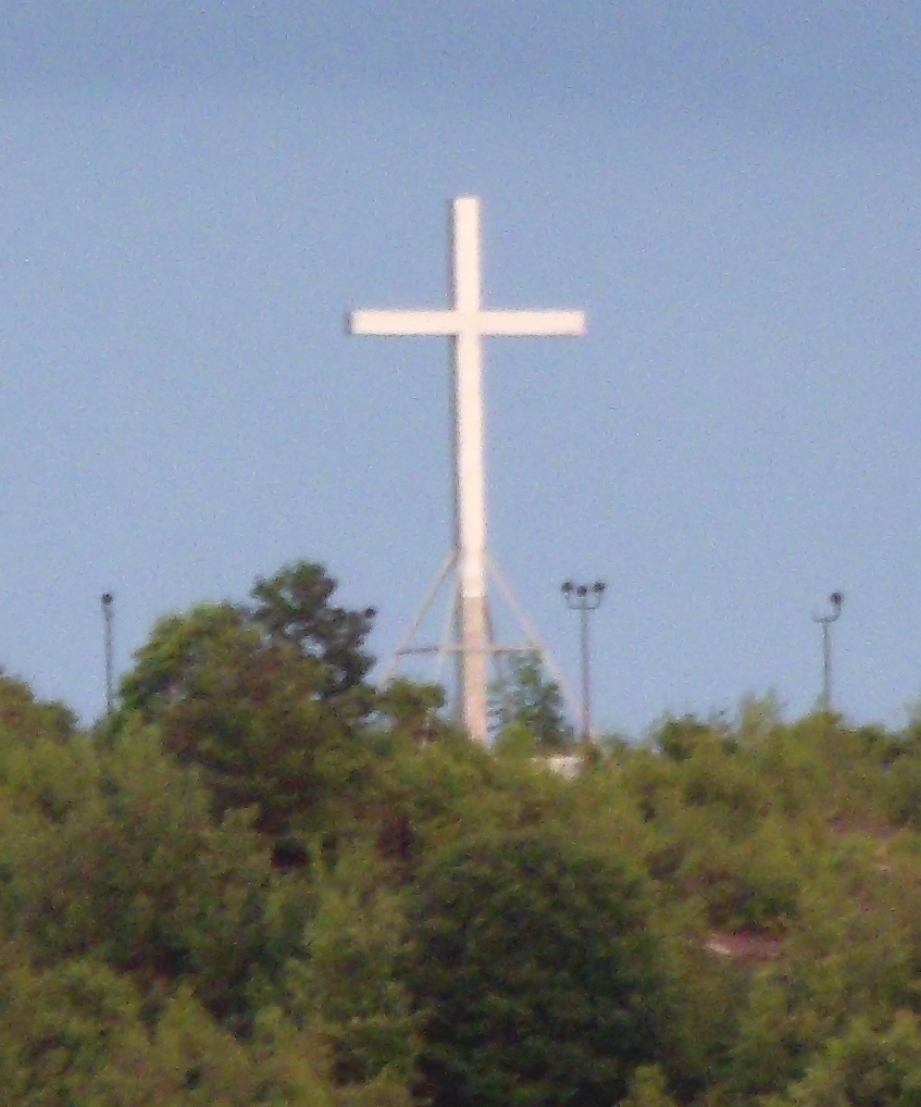 The 50-foot (15 m) stainless steel cross erected at Holy Land USA in 2008. The floodlights that illuminate the cross at night are visible.